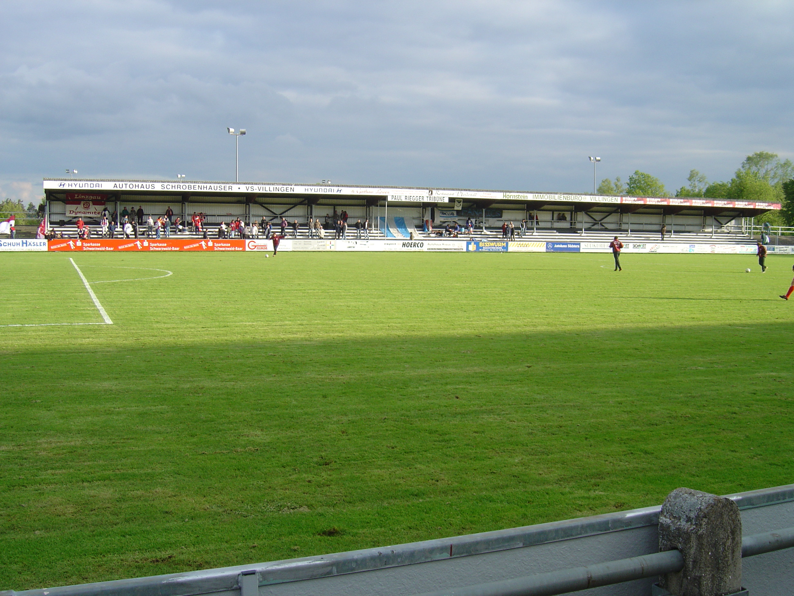 Stadion am Friedengrund, the home of football club FC 08 Villingen - Paul-Riegger-Tribüne on the opposite side